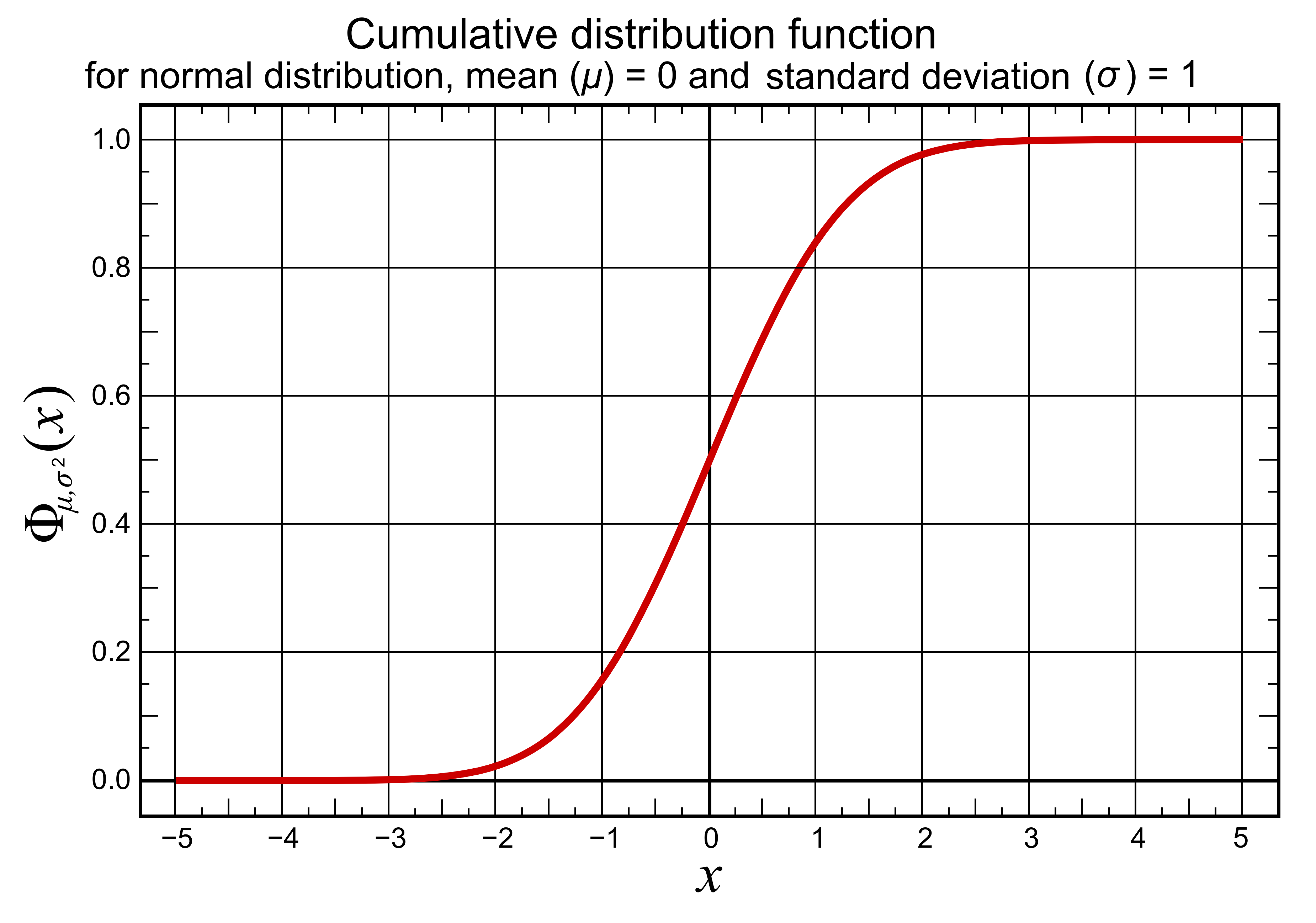 Cumulative distribution function for normal distribution, mean of 0 and standard deviation of 1.